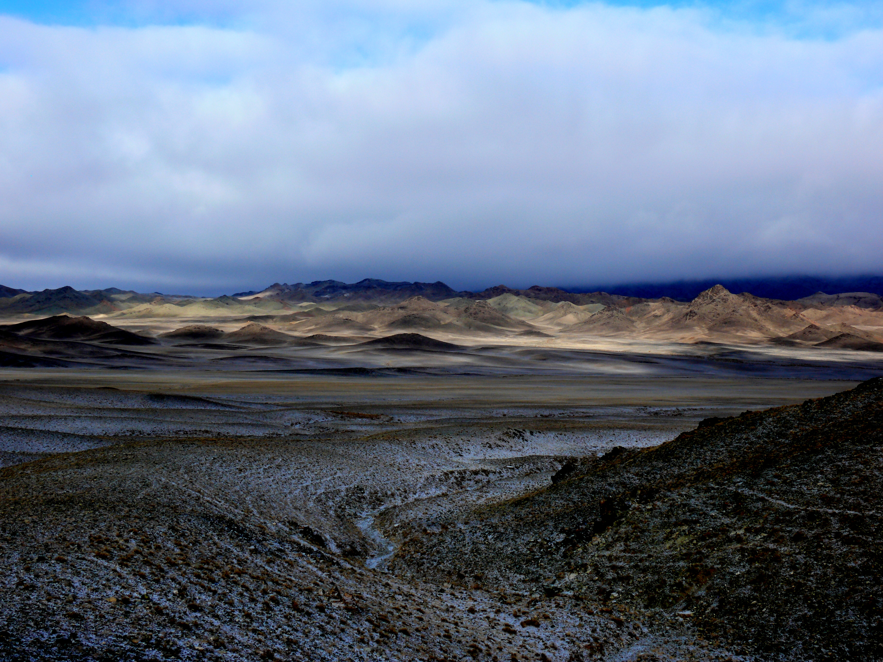 A landscape picture of the Tost Local Protected Area in South Gobi, Mongolia. The landscape in Autumn